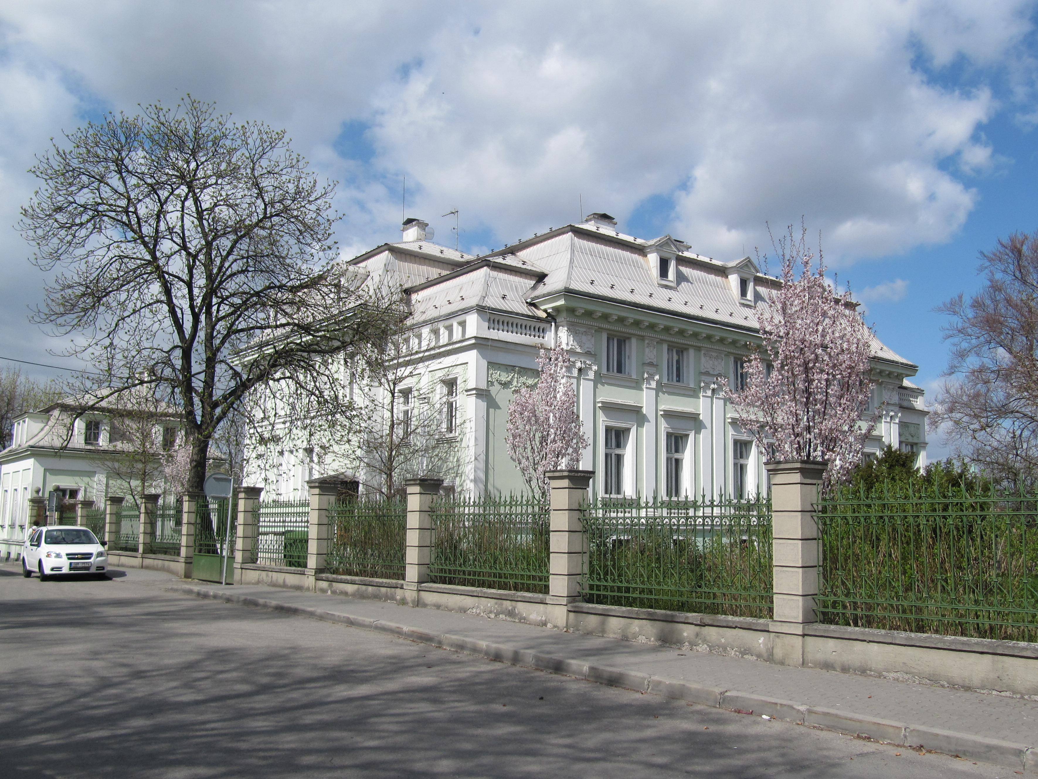 Nový Jičín, Czech Republic. Villa in Husova street, now town library.